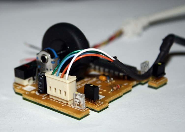 PS/2 Mouse (Hardware)